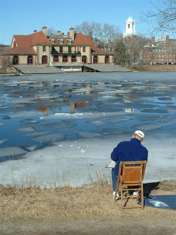 Charles River, Ice, Cambridge, Painter. Weld Boathouse (home to Harvard University rowing team) in the background.